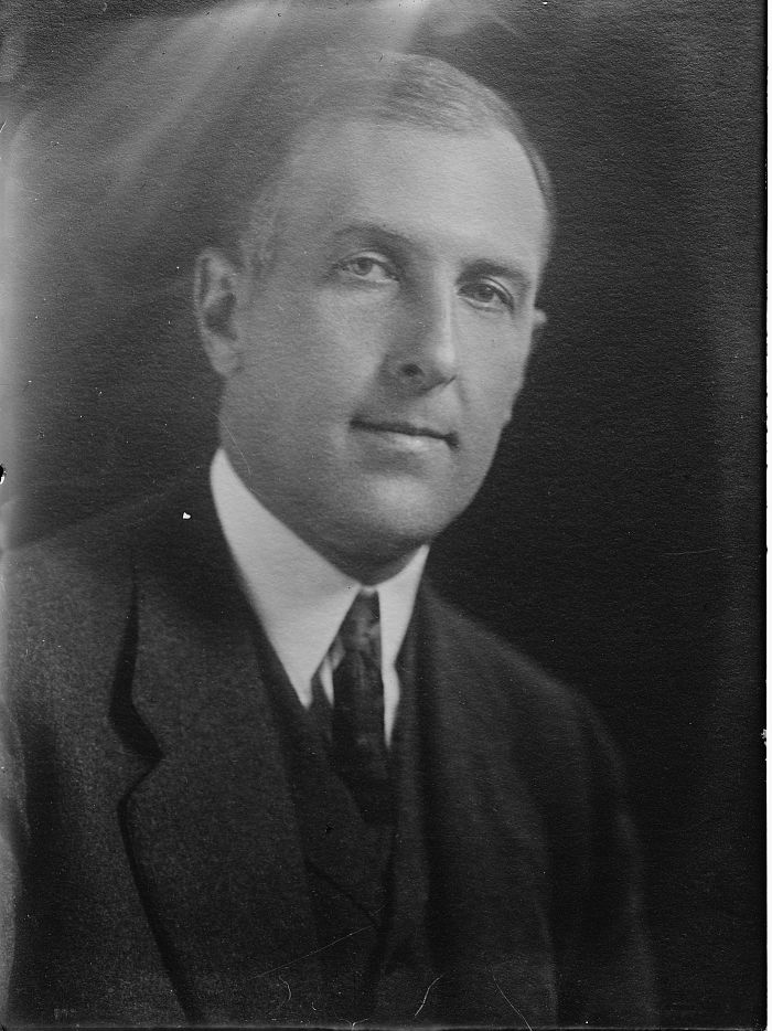 Richard Teller Crane II (1882-1938) portrait circa 1919 cropped